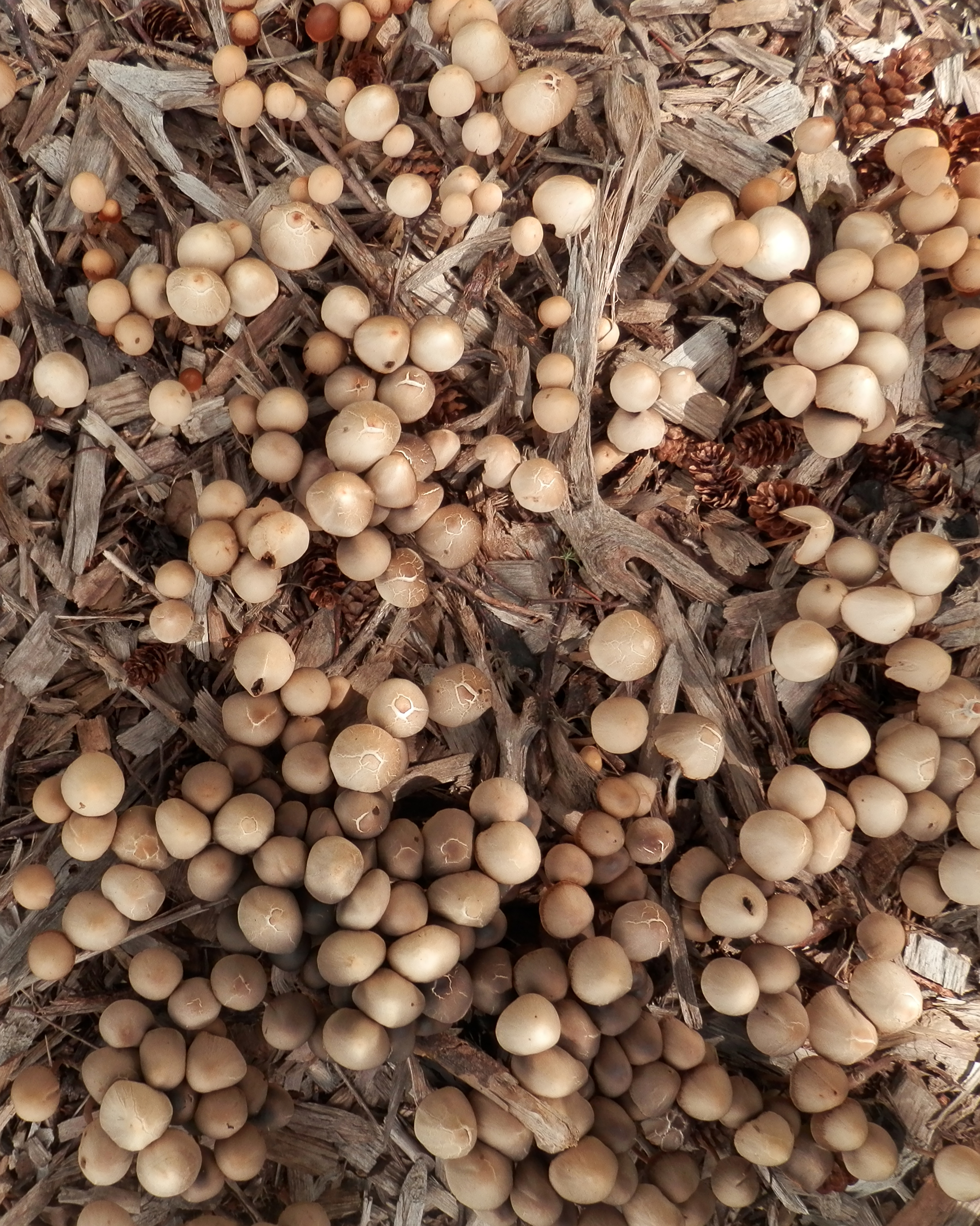 Fungi in Kitchener, Ontario, Canada.